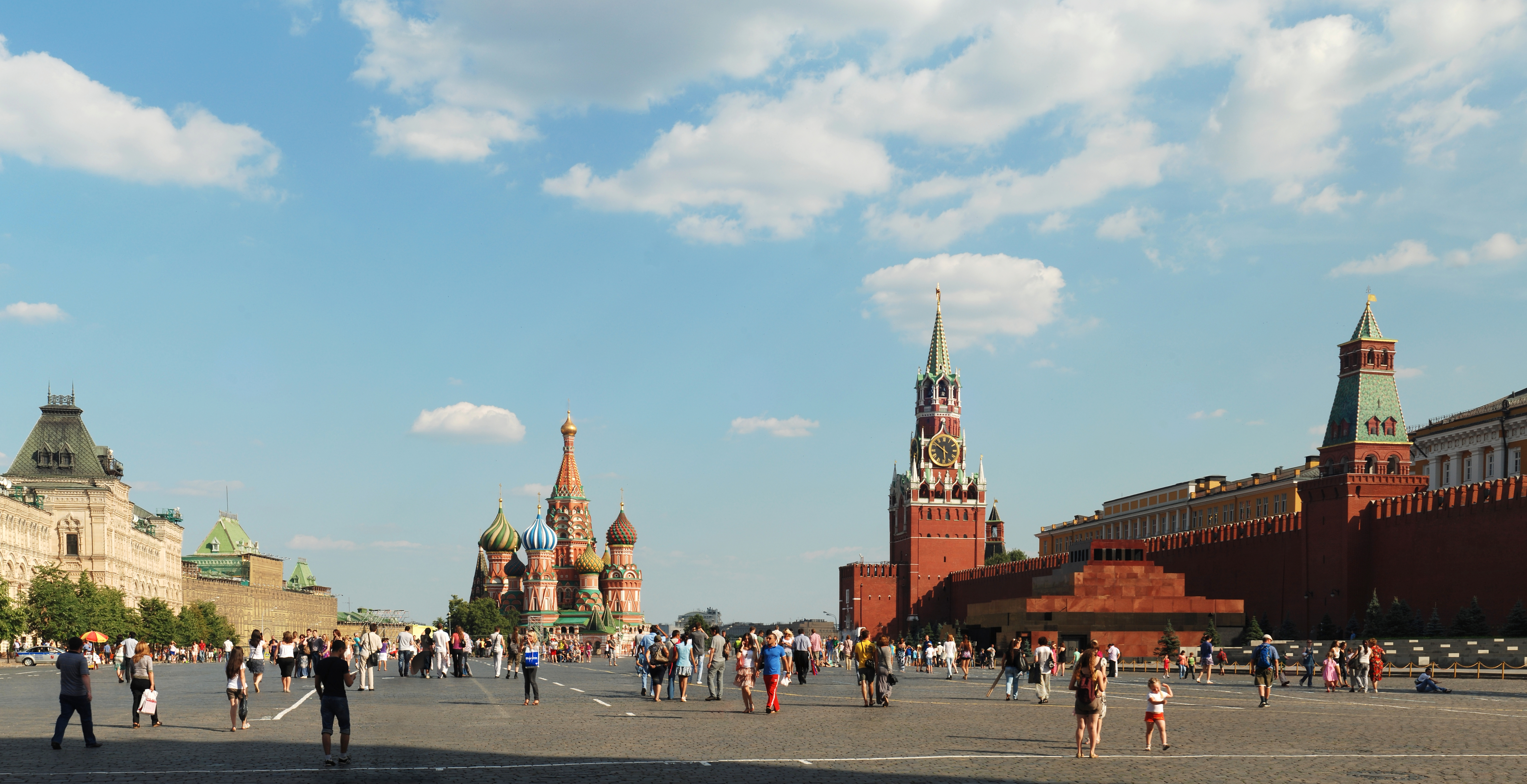 The Red Square, Moscow. View from northwest